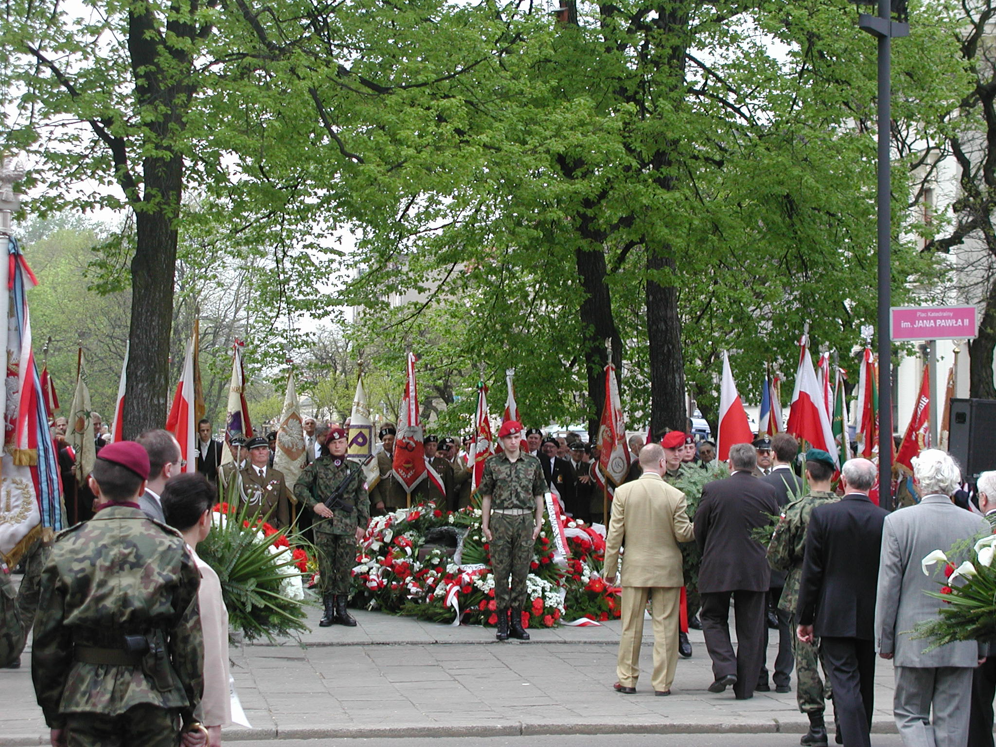 May 3rd (Constitution Day) celebrations before the tomb of the Unknown Soldier in Lodz.